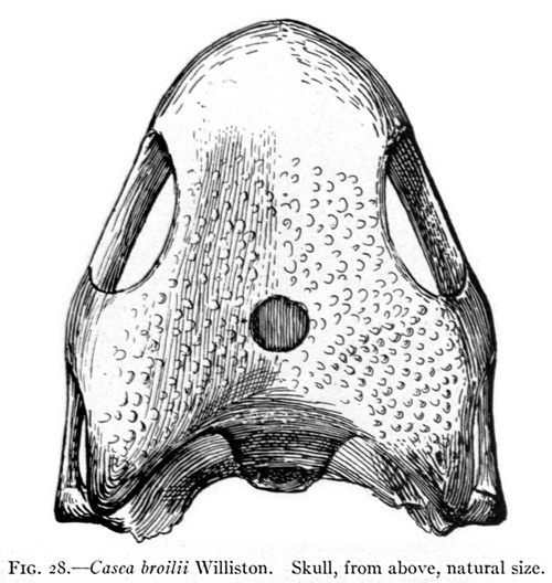 Skull of Casea broilli, Late Permian pelycosaur synapsid. Very large parietal foramen is seen.